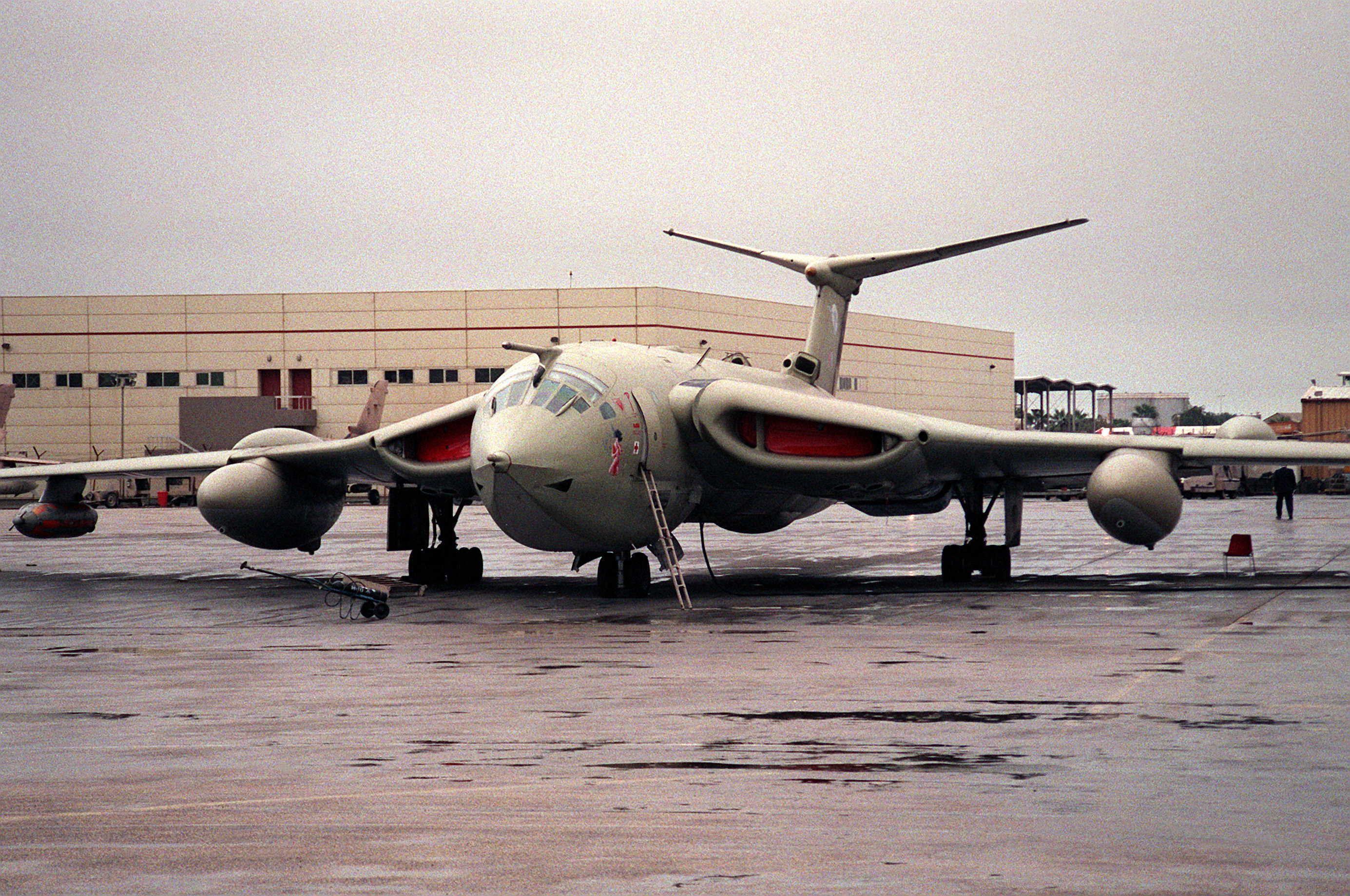 A British Royal Air Force "Victor BK Mark 2" tanker aircraft sits at Jubail Naval Airport following Operation Desert Storm.